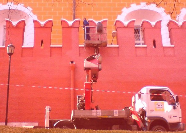 Walls of the Moscow Kremlin are painted in red (2010)